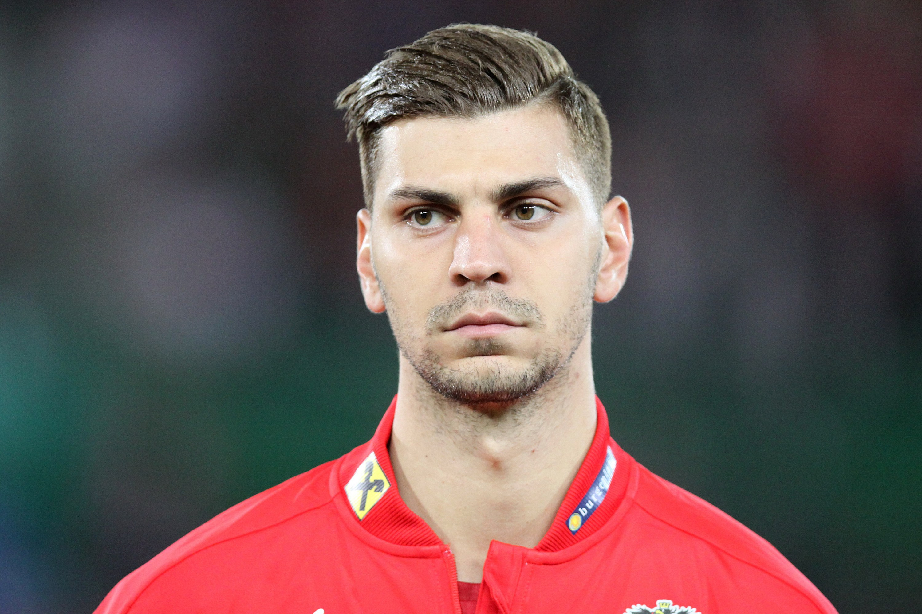 Friendly match – Austria (red shirts) vs. Switzerland (white shirts) 1-2 (1-2) – 2015-11-17 in Vienna, Ernst-Happel-Stadion – The photo shows Aleksandar Dragović.